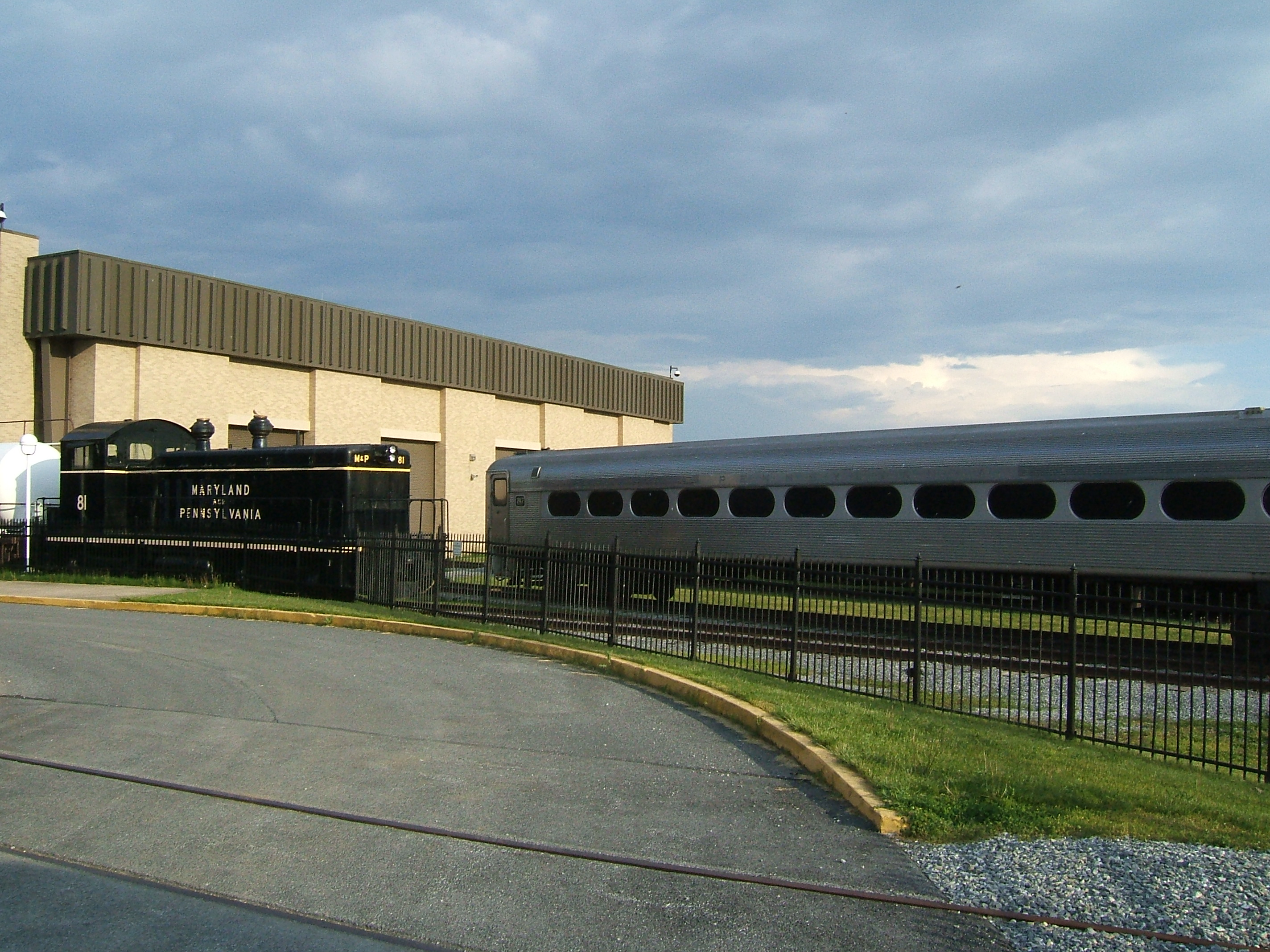 Strasburg historic railroad